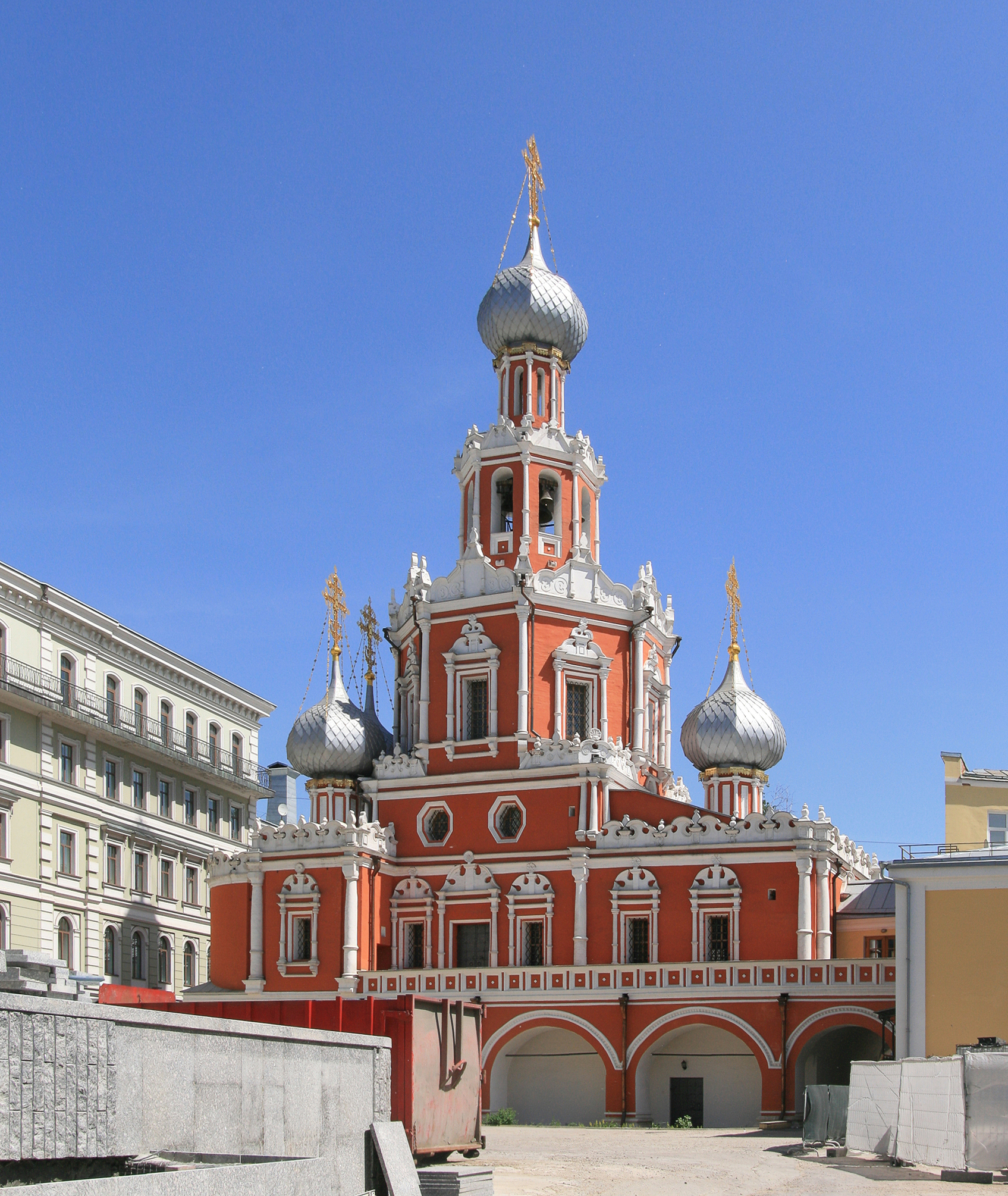 Church of the Theotokos of the Sign in Sheremetev Court, Moscow